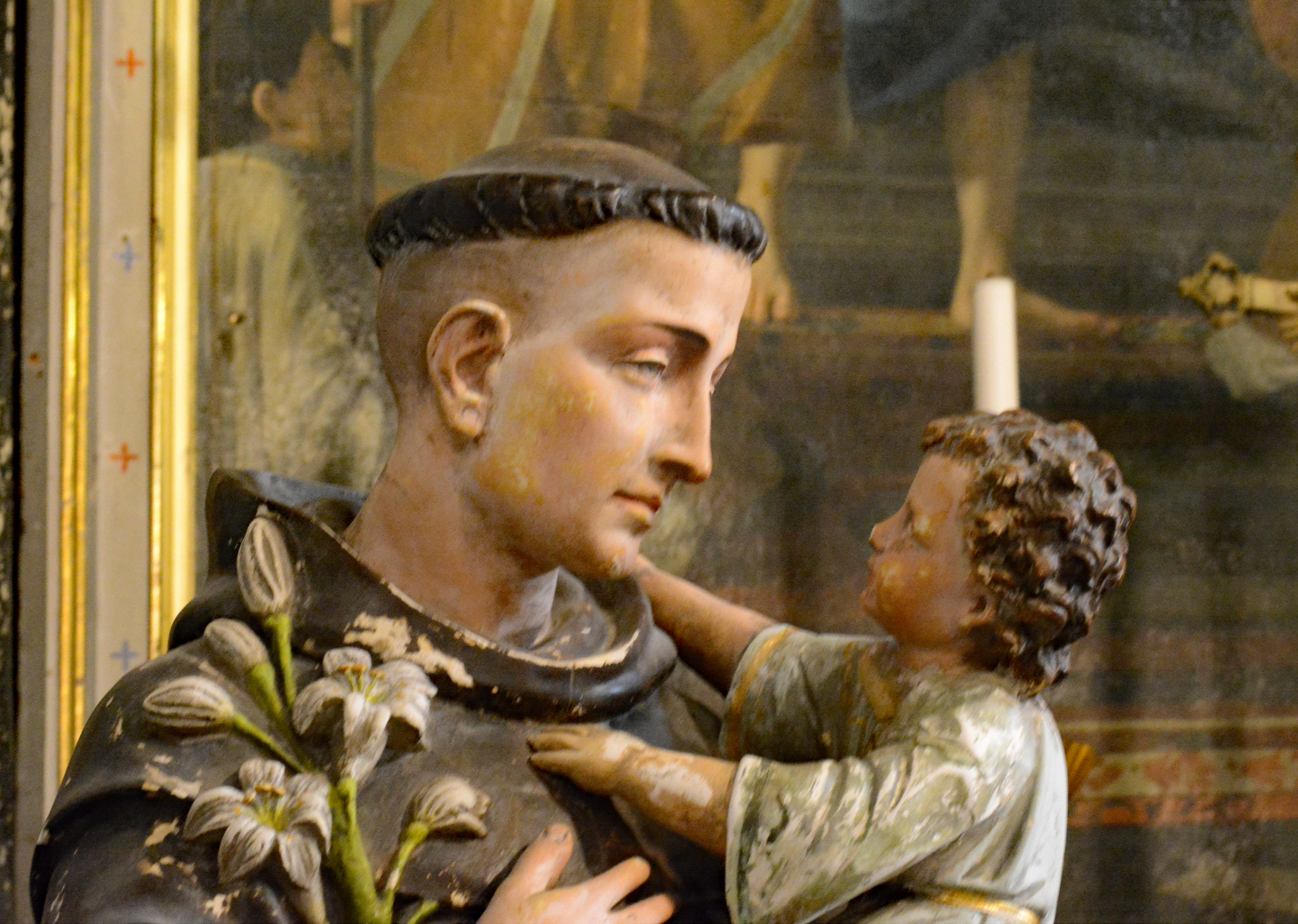 Saint Anthony of Padua (Sculpture, Nice, in church "Saint-Jacques-le-Majeur"